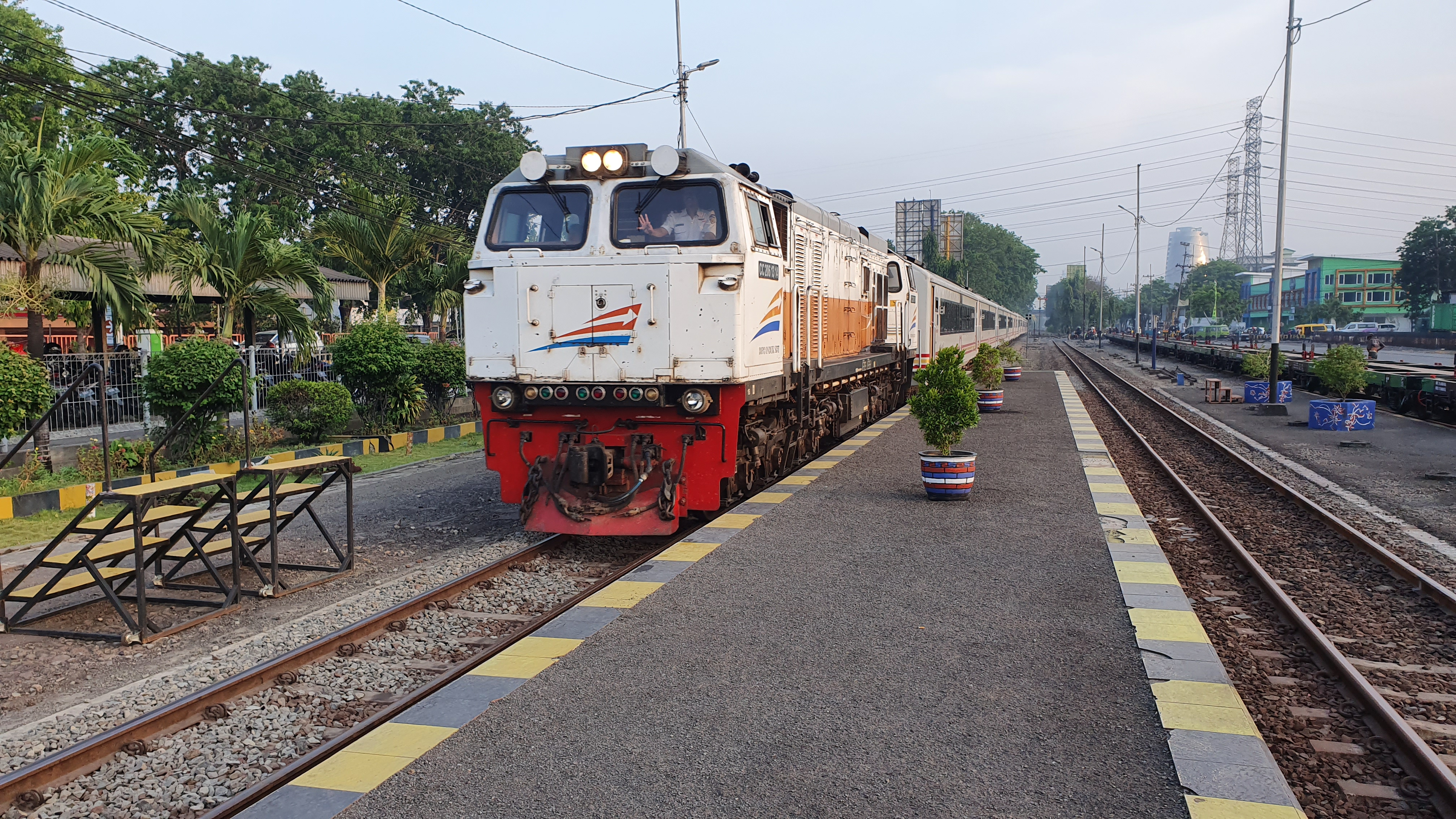 Songgoriti morning express train from Surabaya to Malang at Waru railway station.